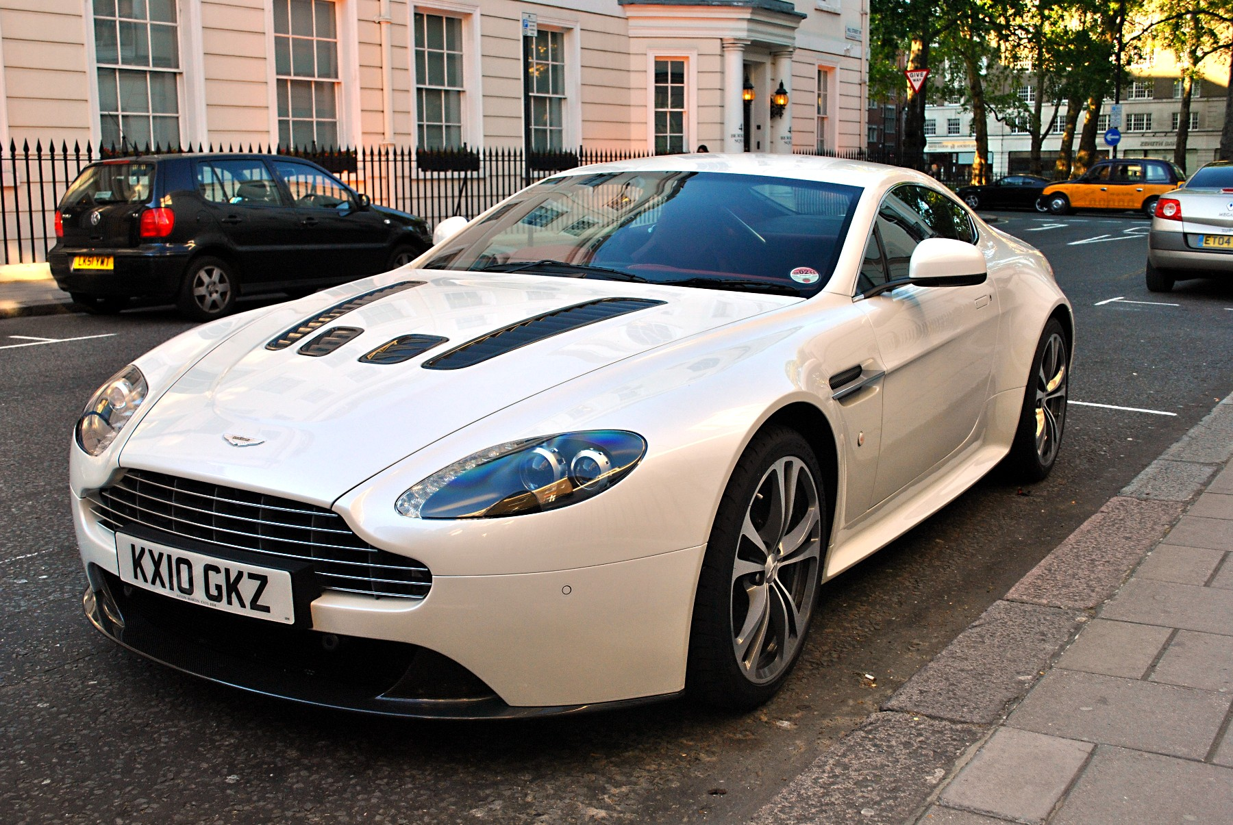 Aston Martin V12 Vantage, pictured in London